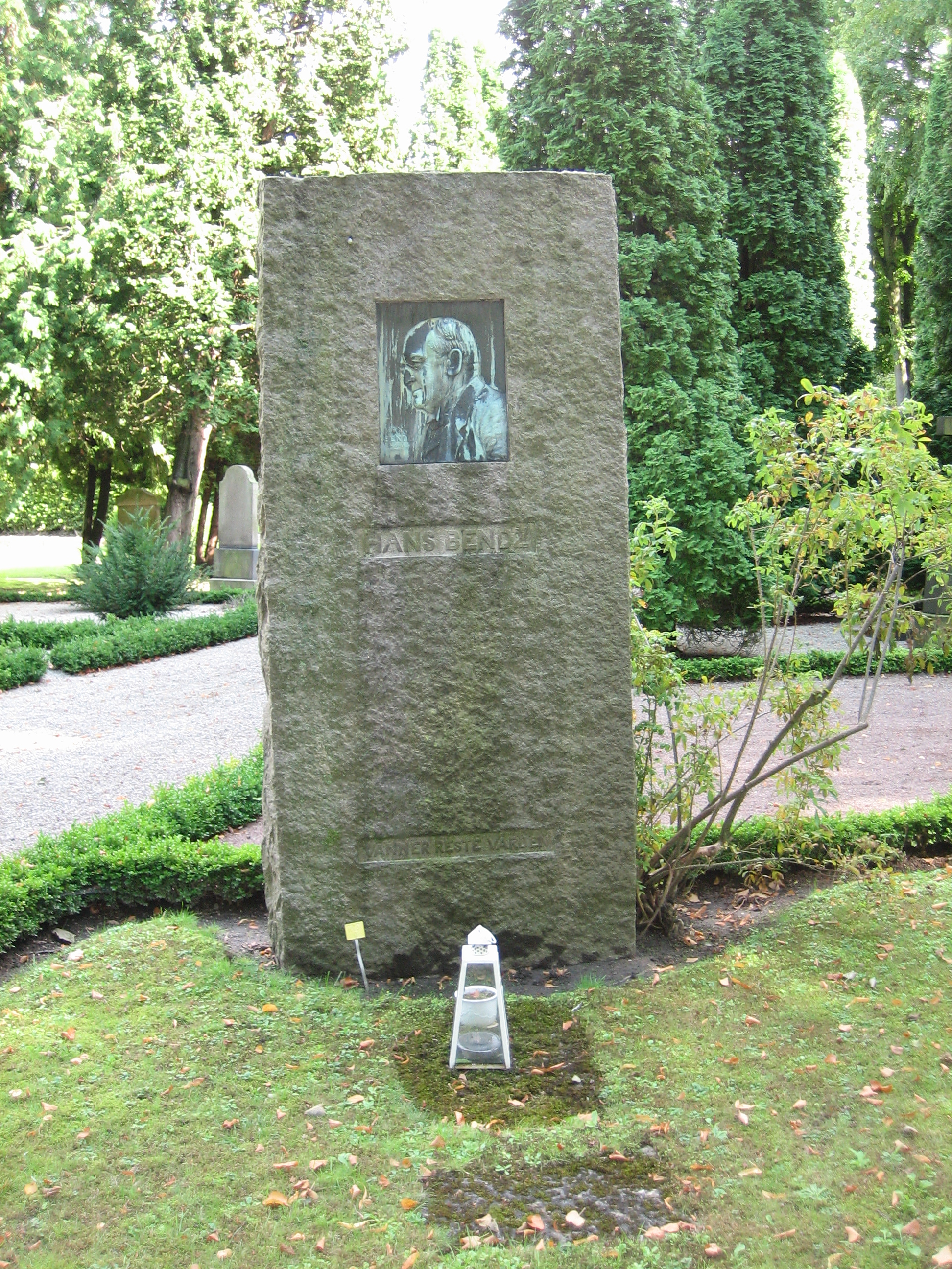 The grave in Lund, Sweden, of Hans Bendz (1851-1914), swedish doctor and professor. Photo taken by the uploader 080824